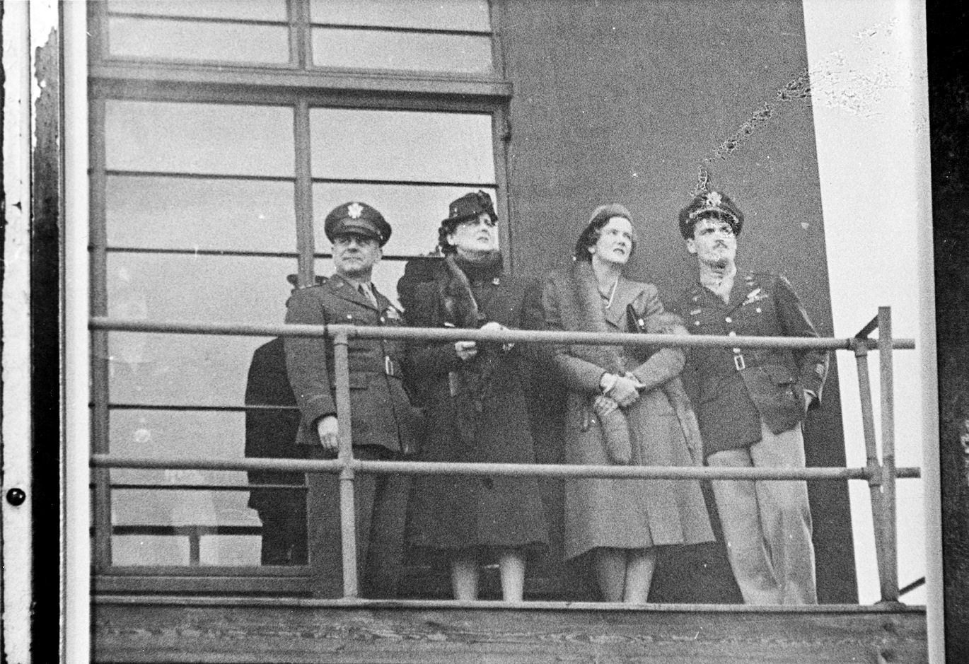 Visitors on the control tower at Chelveston, during a visit to the 305th Bomb Group